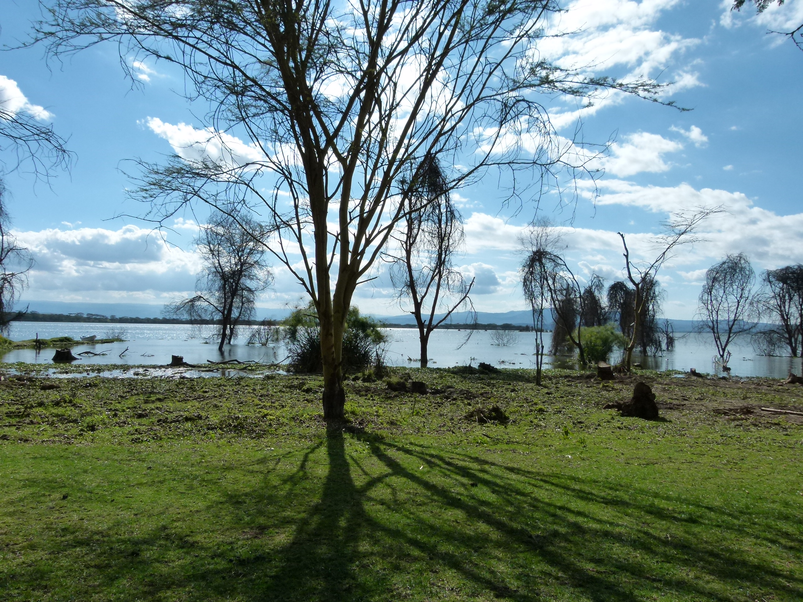 Lake Naivasha